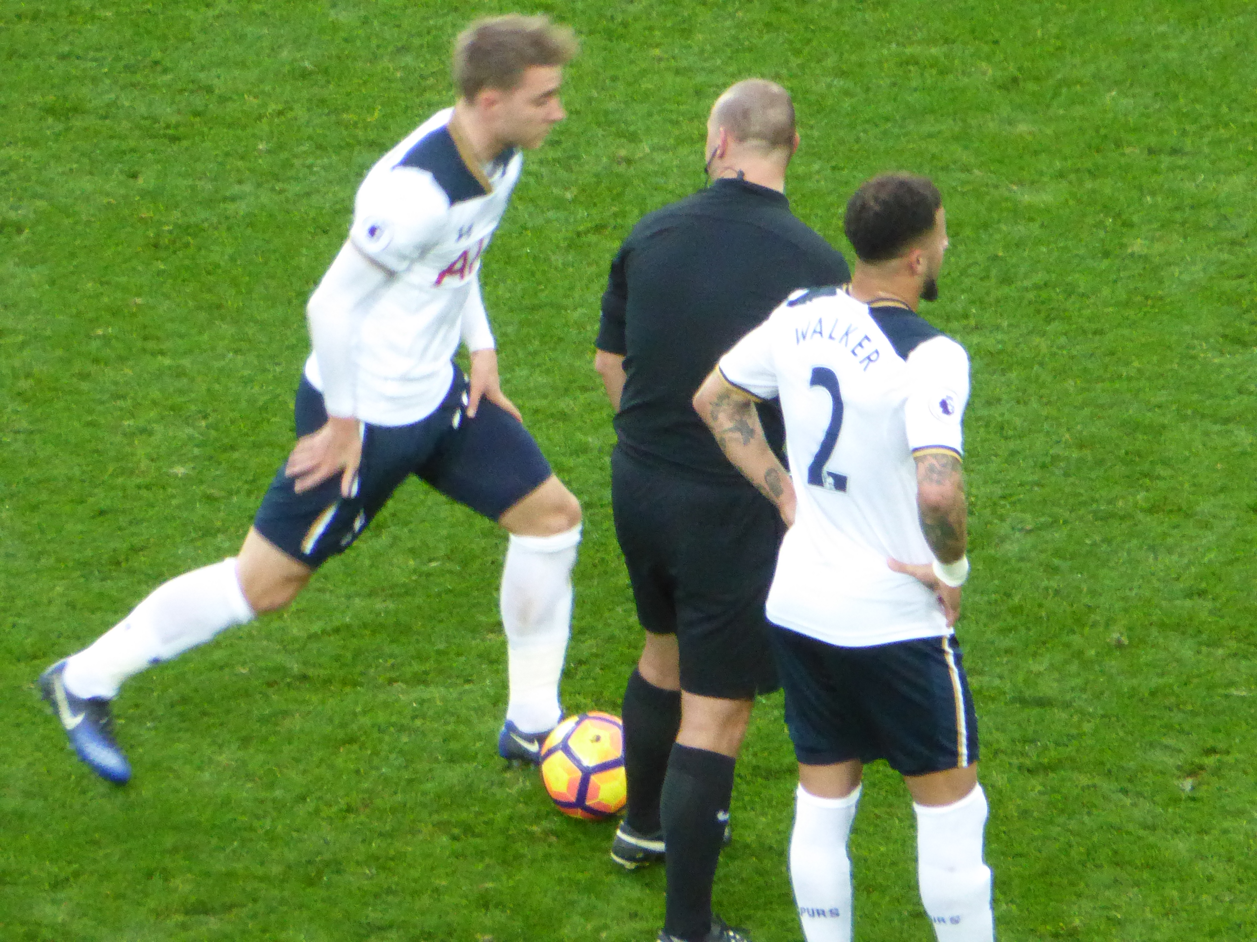 Manchester United v Tottenham Hotspur (1-0), Premier League, Old Trafford, Manchester, Greater Manchester, England, December 2016